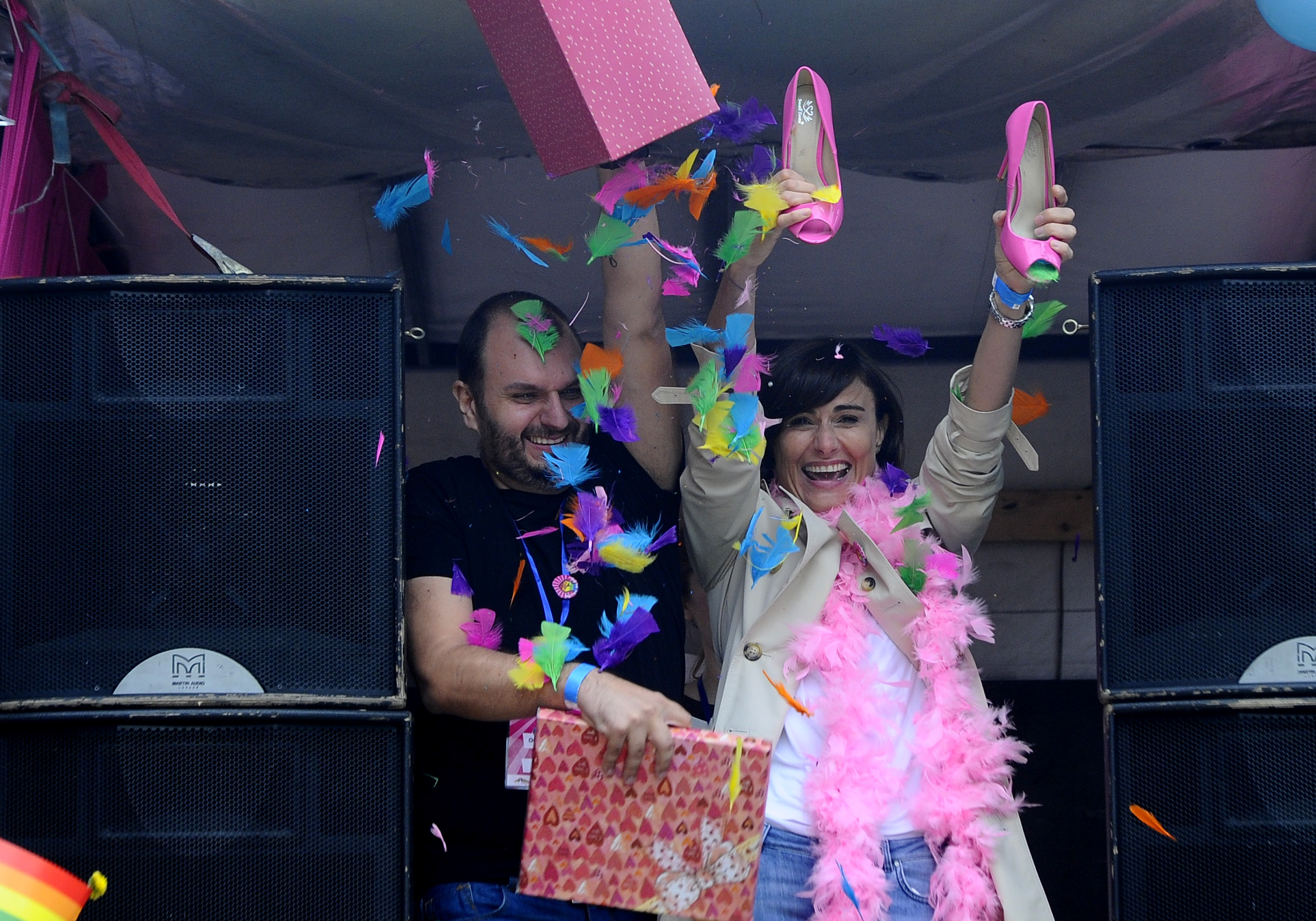 Biljana Srbljanović, the Godmother of Belgrade Pride 2015